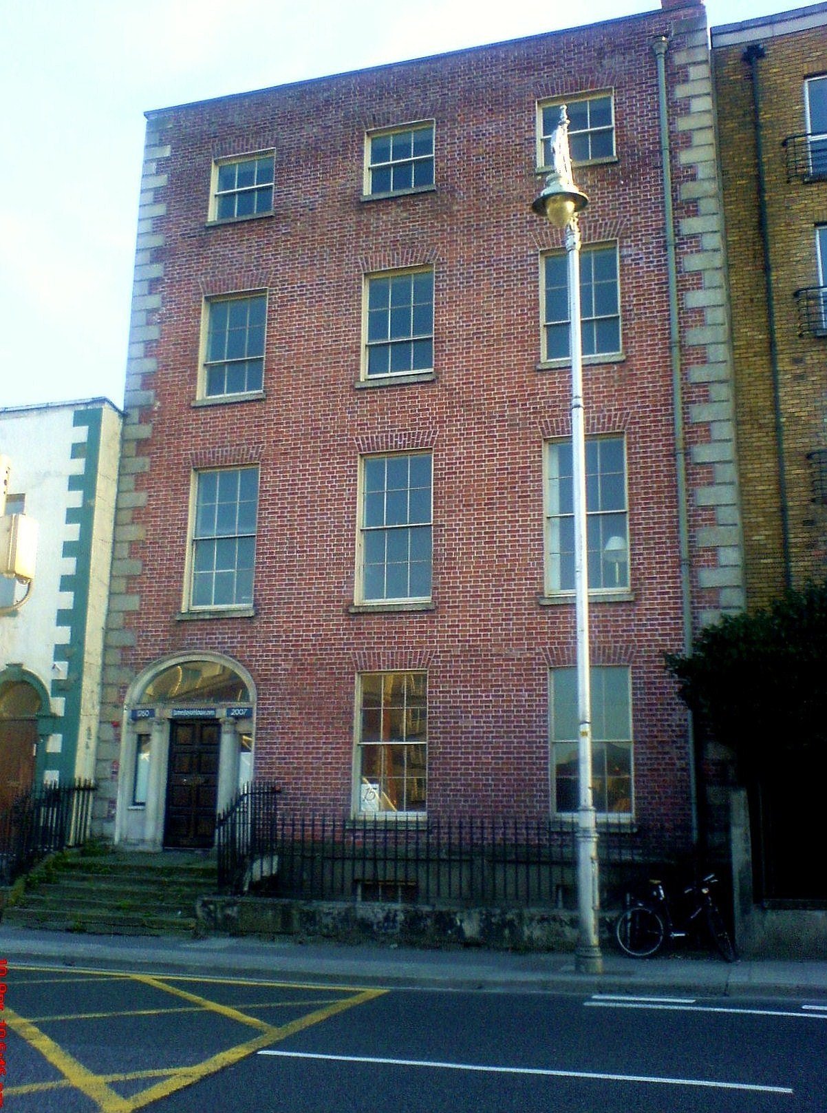 15 Usher's Island, Dublin city. The real-life location of the fictional Morkan sisters' home in James Joyce's "The Dead".